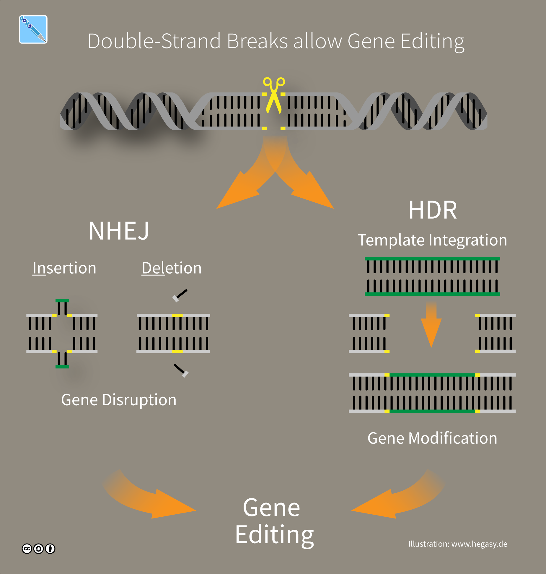 Cellular Repair Mechanisms of Double-Strand DNA Breaks can be exploited for Genetic Manipultions. When a double-strand break (DSB) is introduced in a cell’s DNA, there are two major repair pathways. In one pathway the blunt DNA ends are joined in a process called non-homologous end joining (NHEJ). This mechanism is error-prone and may produce insertions or deletions of bases. These alterations are collectively called Indel mutations. Indel mutations may result in a loss of function of the affected gene, e.g., by introducing a frameshift and/ or a premature stop codon. Another pathway is called homology directed repair (HDR). This pathway uses a DNA template to repair the site where the DSB occurred. When exogenous DNA is added, the sequence may serve as a template and is then integrated into the repair process. This may lead to the introduction of a new genetic sequence. Both repair pathways may result in a genetic alteration.